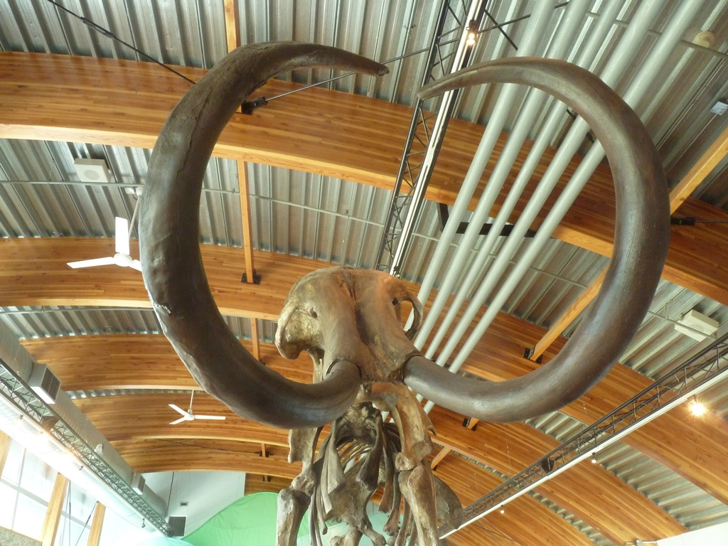 The Yukon is rich with mammoth fossils - because it used to form part of the Beringia sub-continent (joining the Yukon and Alaska with Siberia)